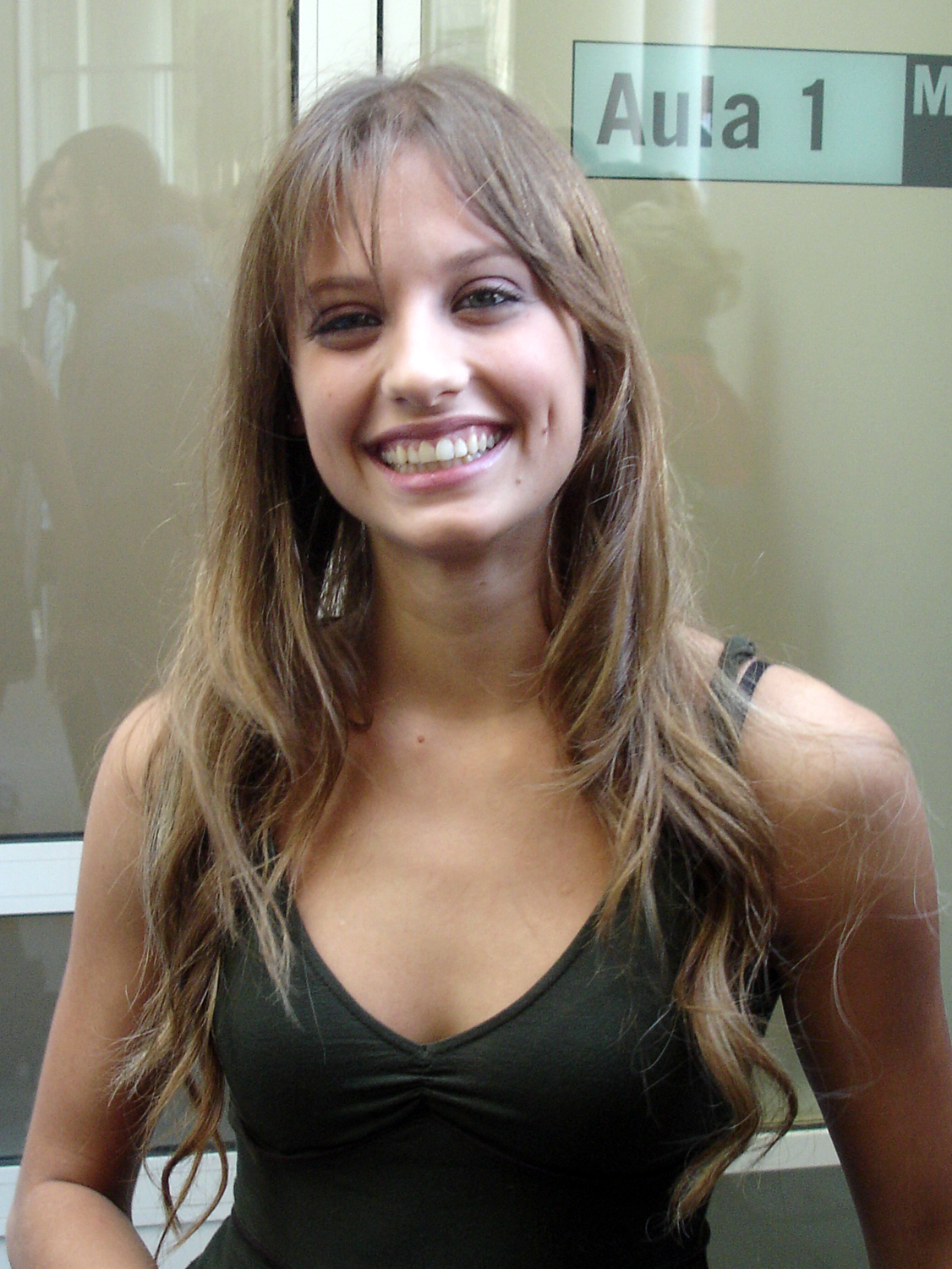 Michelle Jenner, spanish actress (MACBA, Barcelona).